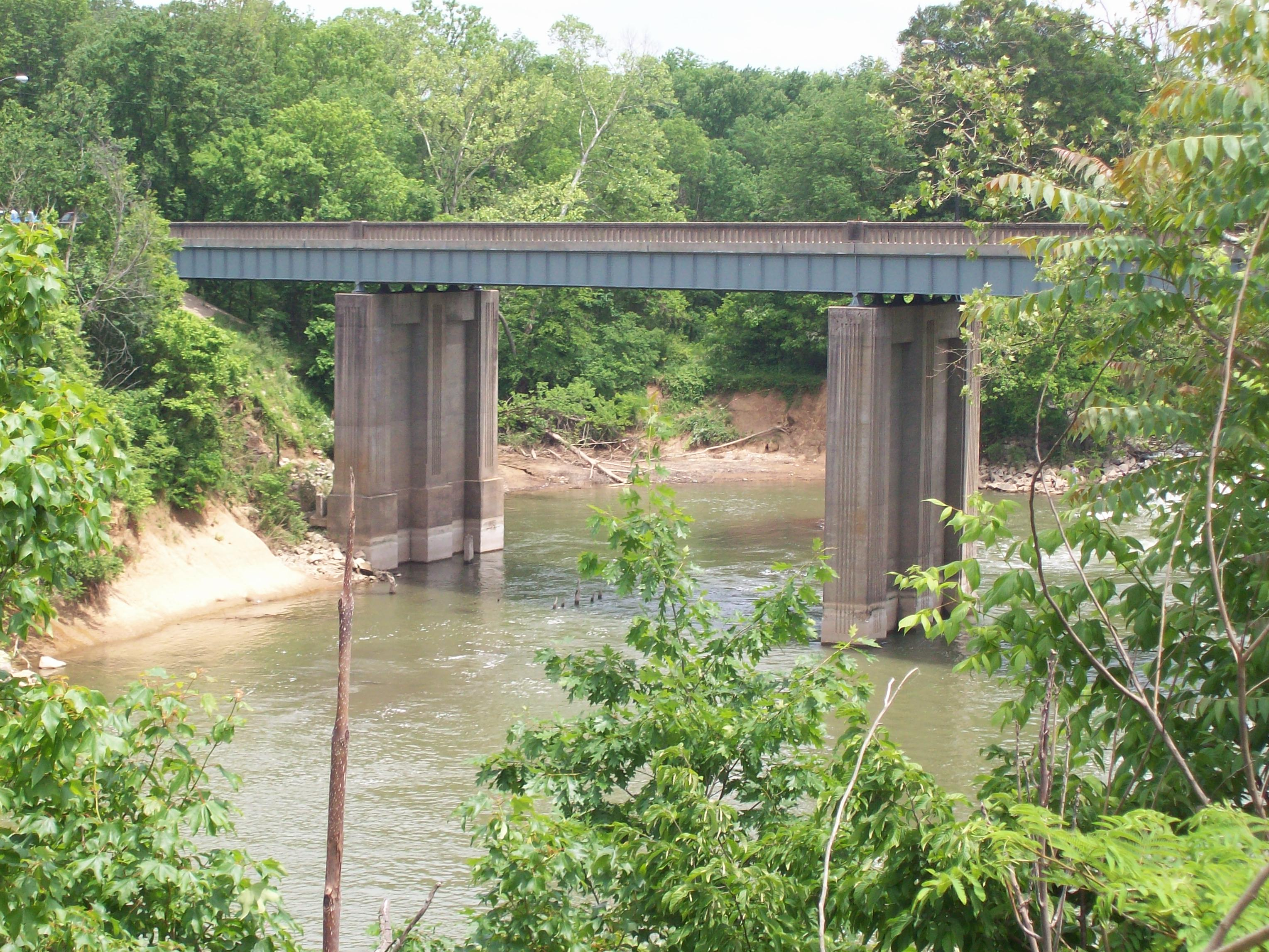 The Barren River, bridged by KY 3225 near downtown Bowling Green, KY